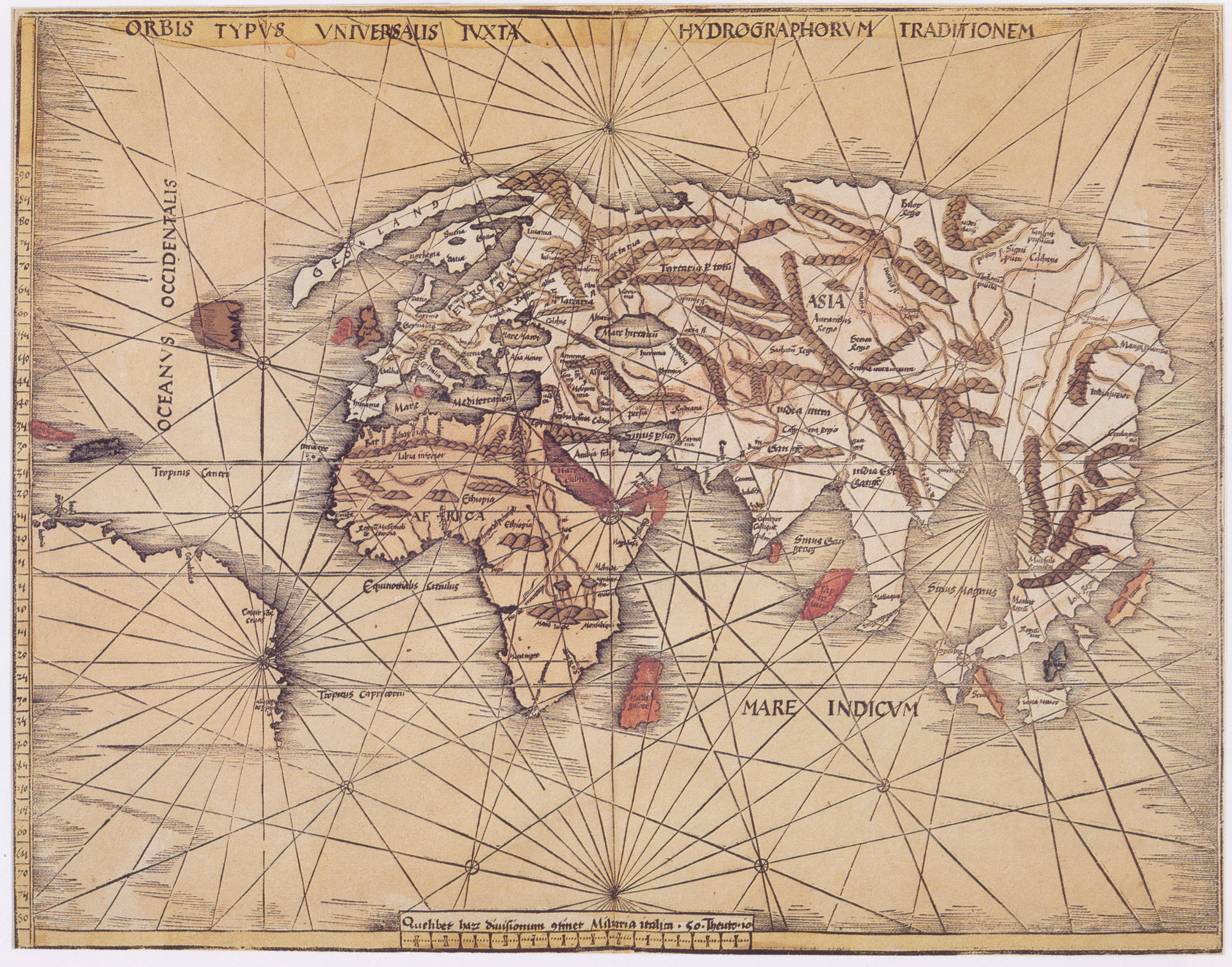 Orbis Typus Universalis, world map drawn by Martin Waldseemüller and first published in 1513